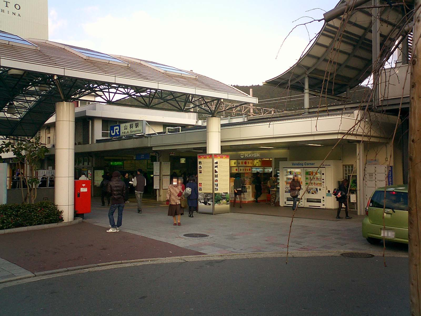 West Japan Railway Tōkaidō Main Line（Biwako Line）& Kosei Line Yamashina Station Building 西日本旅客鉄道 東海道本線（琵琶湖線）& 湖西線 山科駅 駅建物